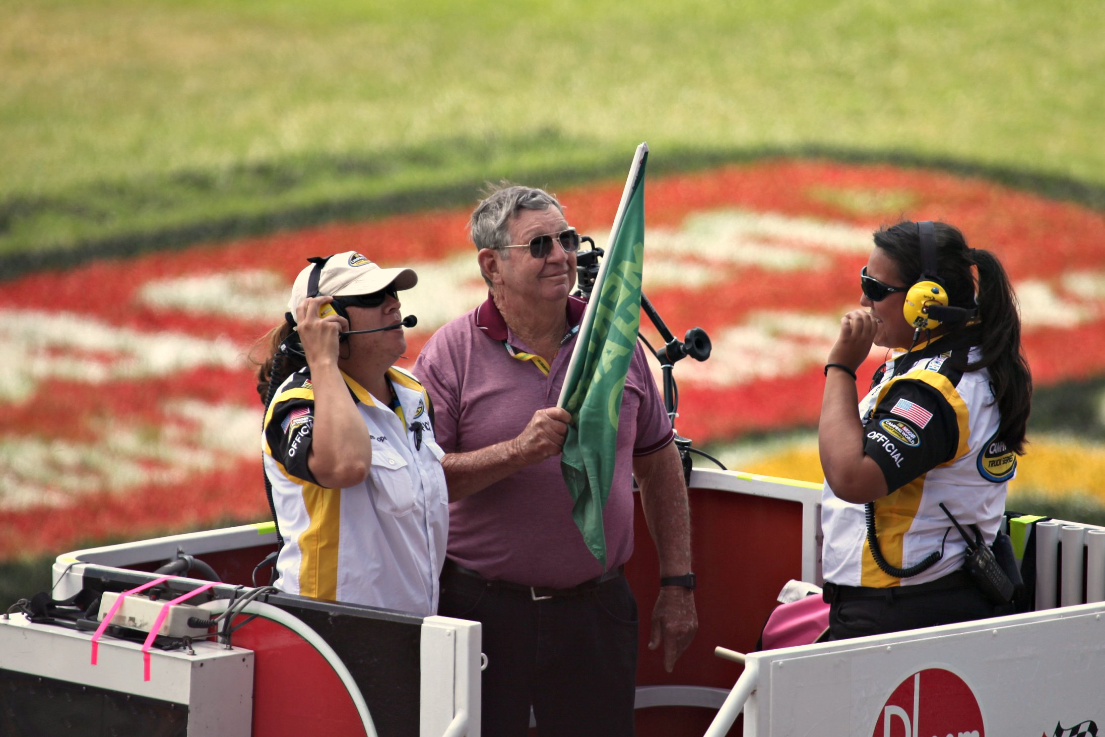 Donnie Allison waves to fans attending the return of NASCAR racing at the Rockingham Speedway.